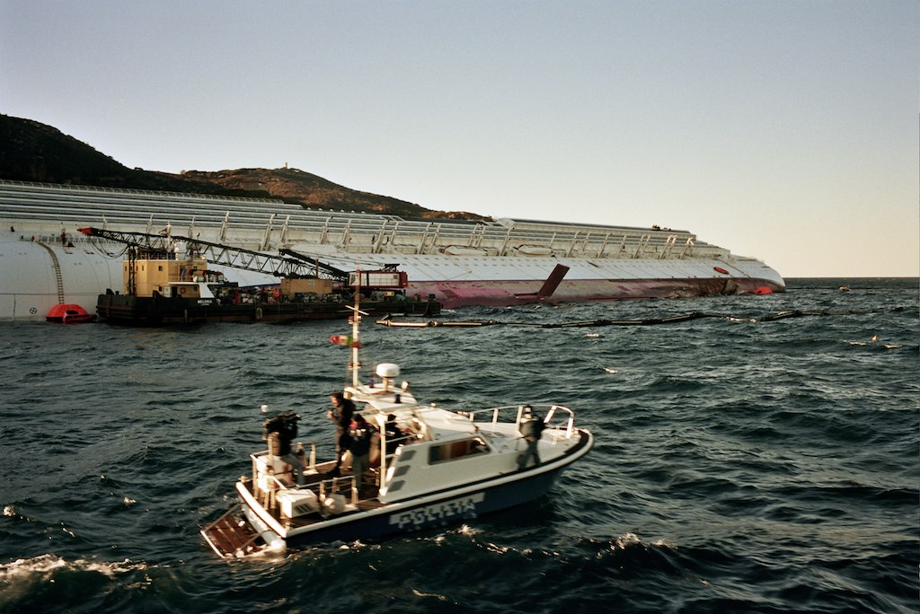 The oil recovery sea platform Meloria alongside the grounded and partially capsized Cruise ship Costa Concordia - 30 Jan. 2012